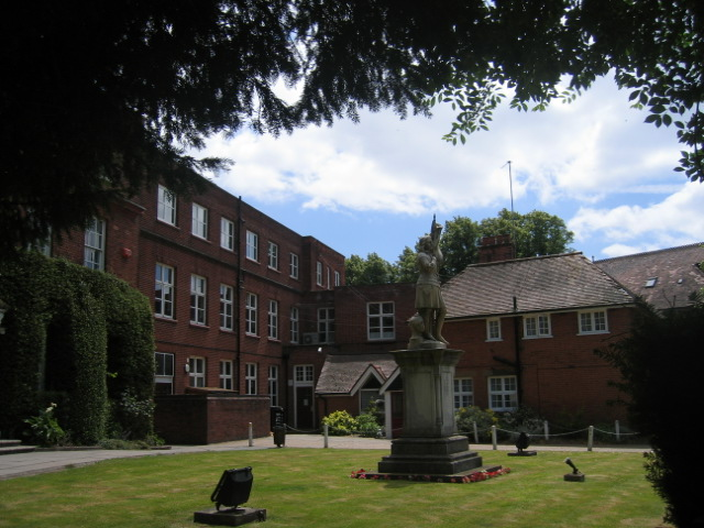 The statue of St Joan stands to the front of The Elms, home to the St Joan of Arc School. At one time it was also home to George Eliot.